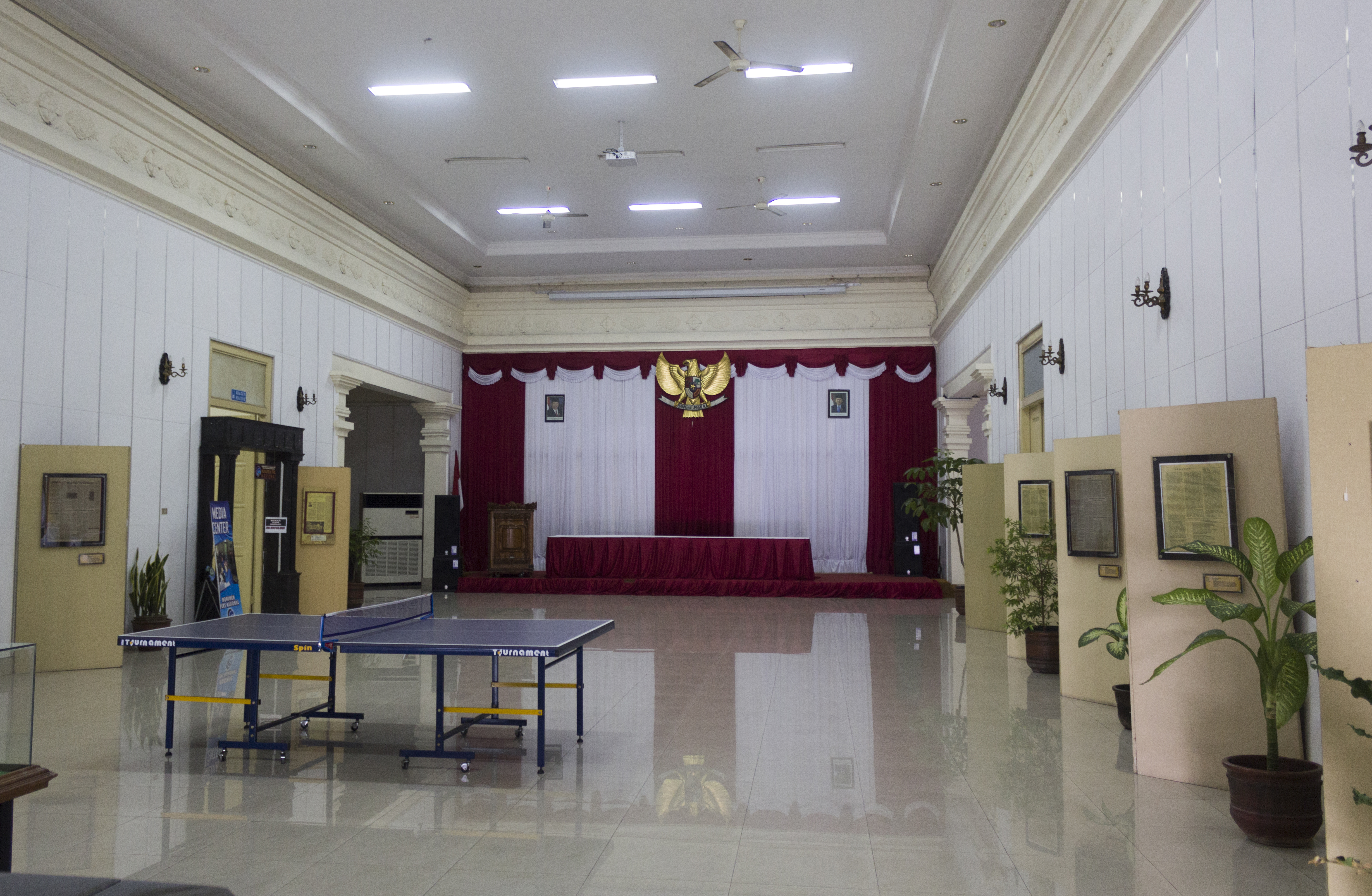 Entrance hall to Monumen Pers Nasional, Surakarta